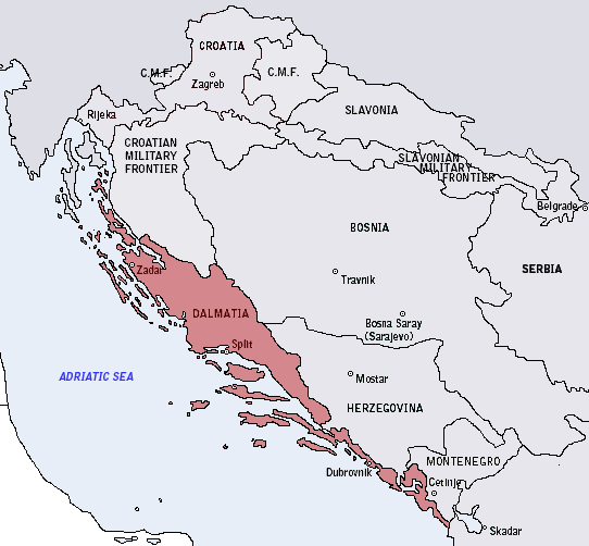 Map of the Kingdom of Croatia (red) in late 1867 and early 1868 (before the Croatian-Hungarian Nagodba and the establishment of the Kingdom of Croatia-Slavonia). The Kingdom of Slavonia was independent of Croatia at the time, but was under its control for most of the existence of both Kingdoms.